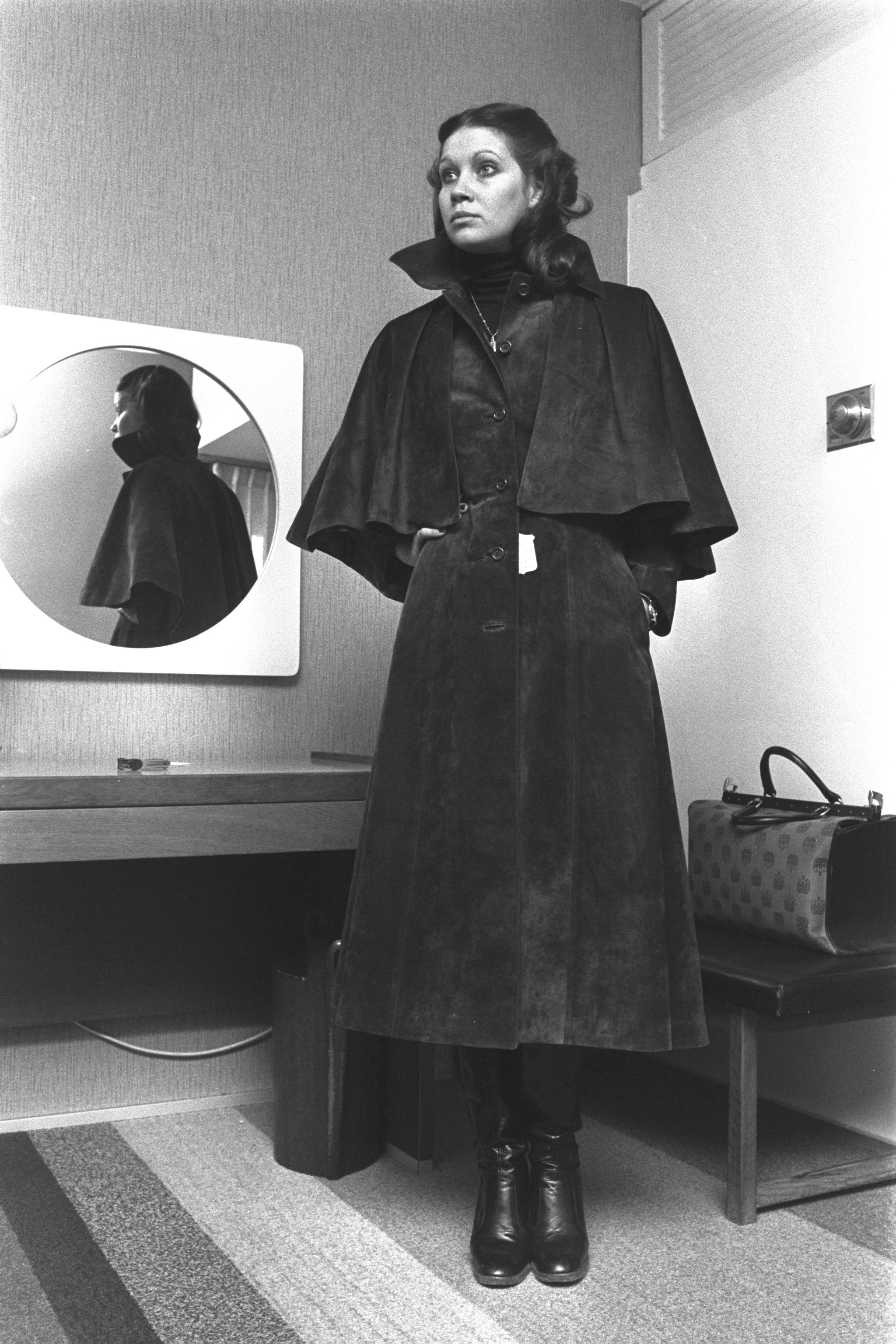 Model Hava Levi wears a green pigskin coat with cape by Beged Or during the Israel Fashion Week at Tel Aviv's Hilton Hotel. הדוגמנית חוה לוי במעיל פרווה של בגד-עור במהלך שבוע האופנה של ישראל Photo: Yaakov Saar (1951–) Alternative names SA'AR YA'ACOV; Jacob Saar; Saʻar, YaʻaḳovDescriptionIsraeli photographerDate of birth 1951 Authority control : Q28751896 VIAF: 298161188 NLI: 001394176 creator QS:P170,Q28751896 , 02/10/1957